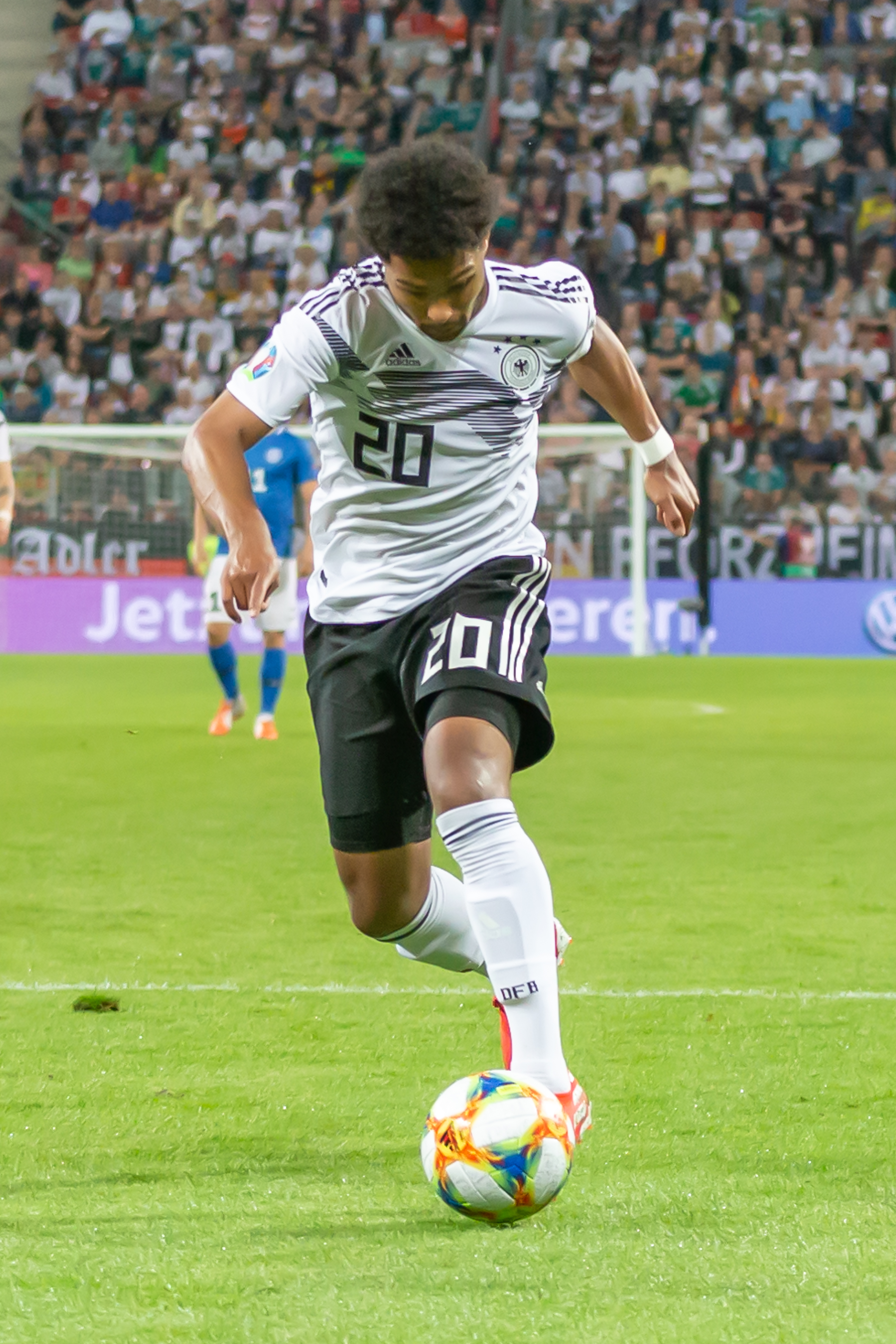 UEFA Euro 2020 qualifier Germany-Estonia